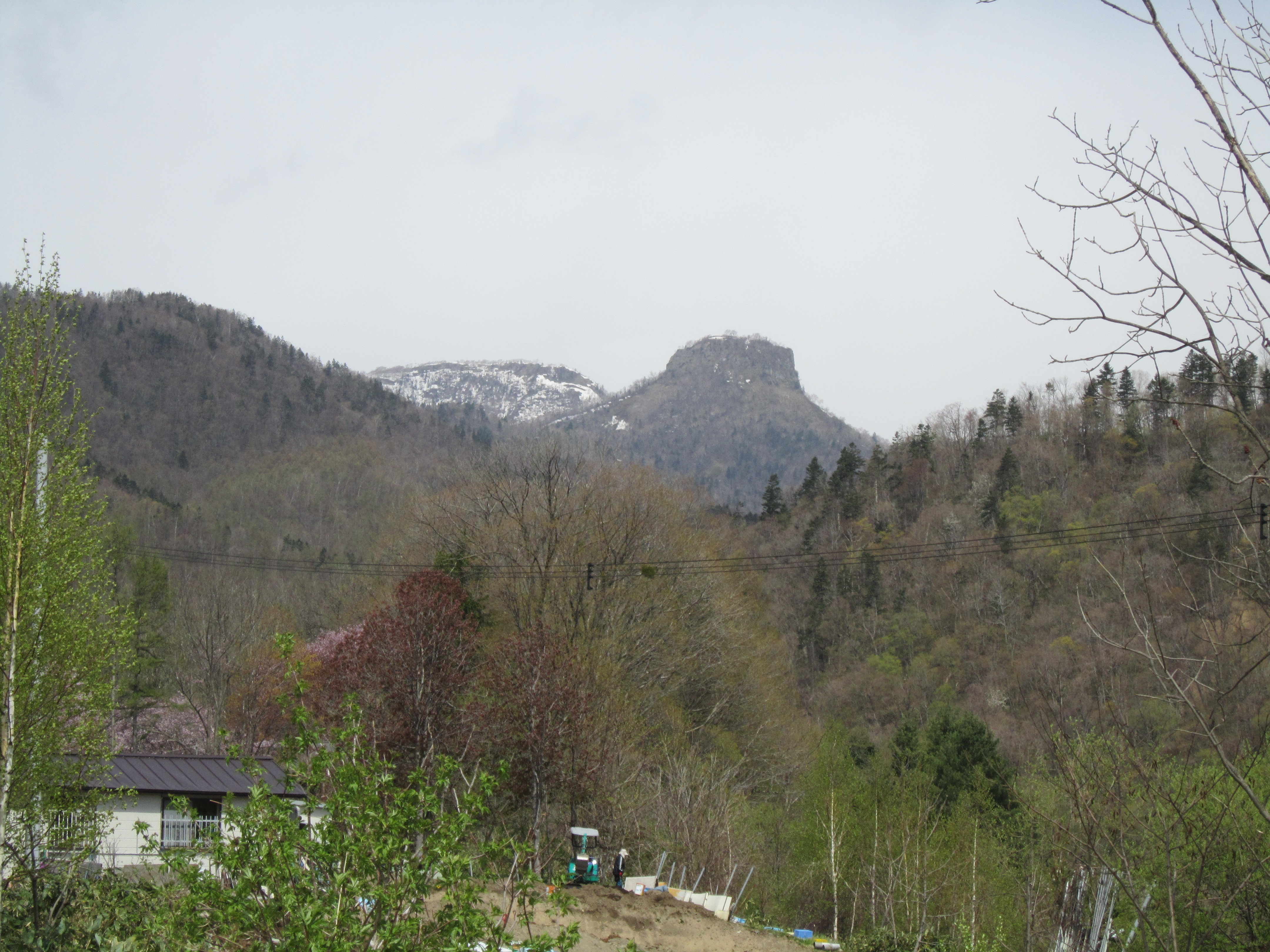 Mount Kamui (right) and Mount Eboshi (left)